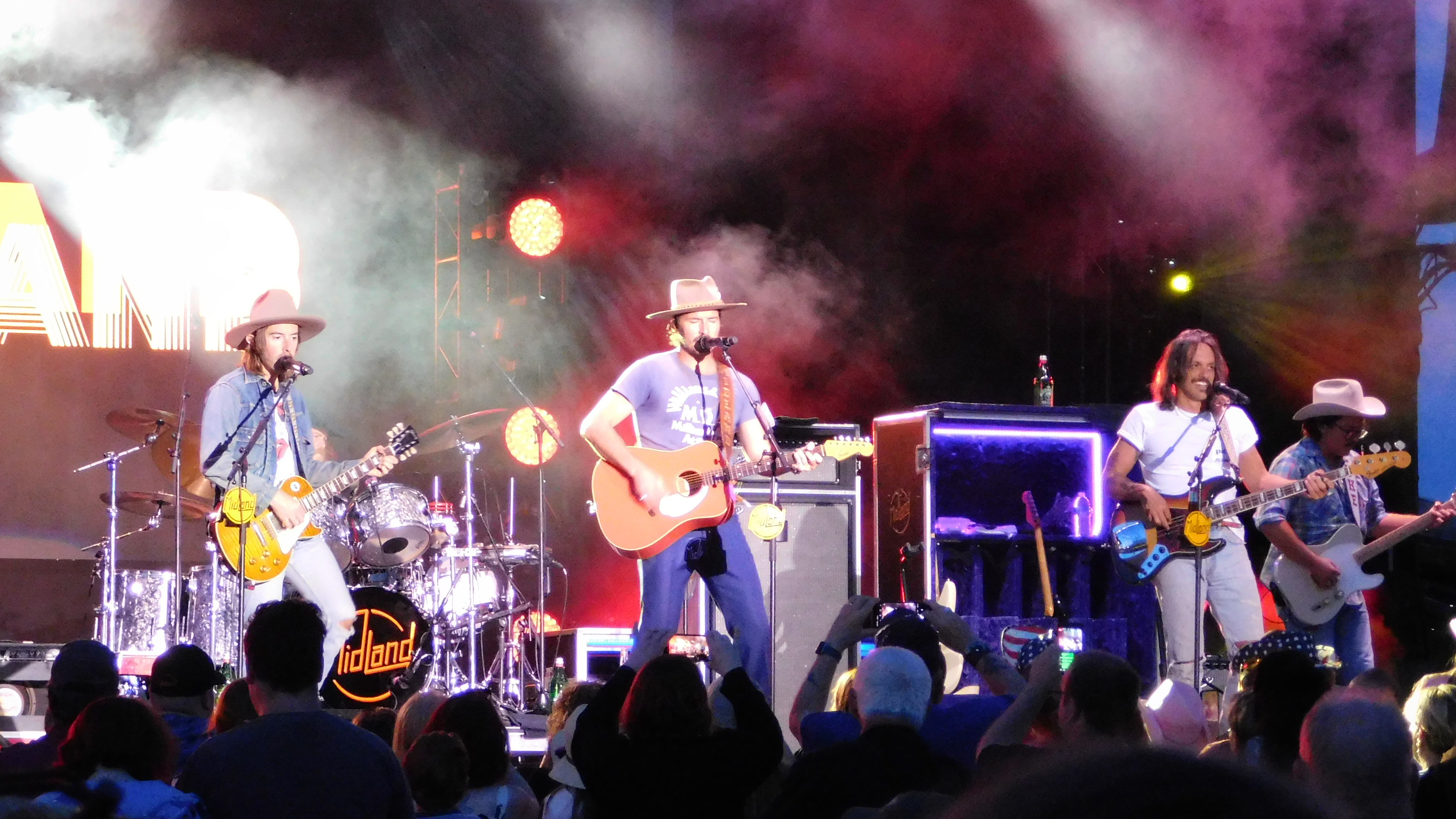 Midland in concert, New York State Fair, August 2019